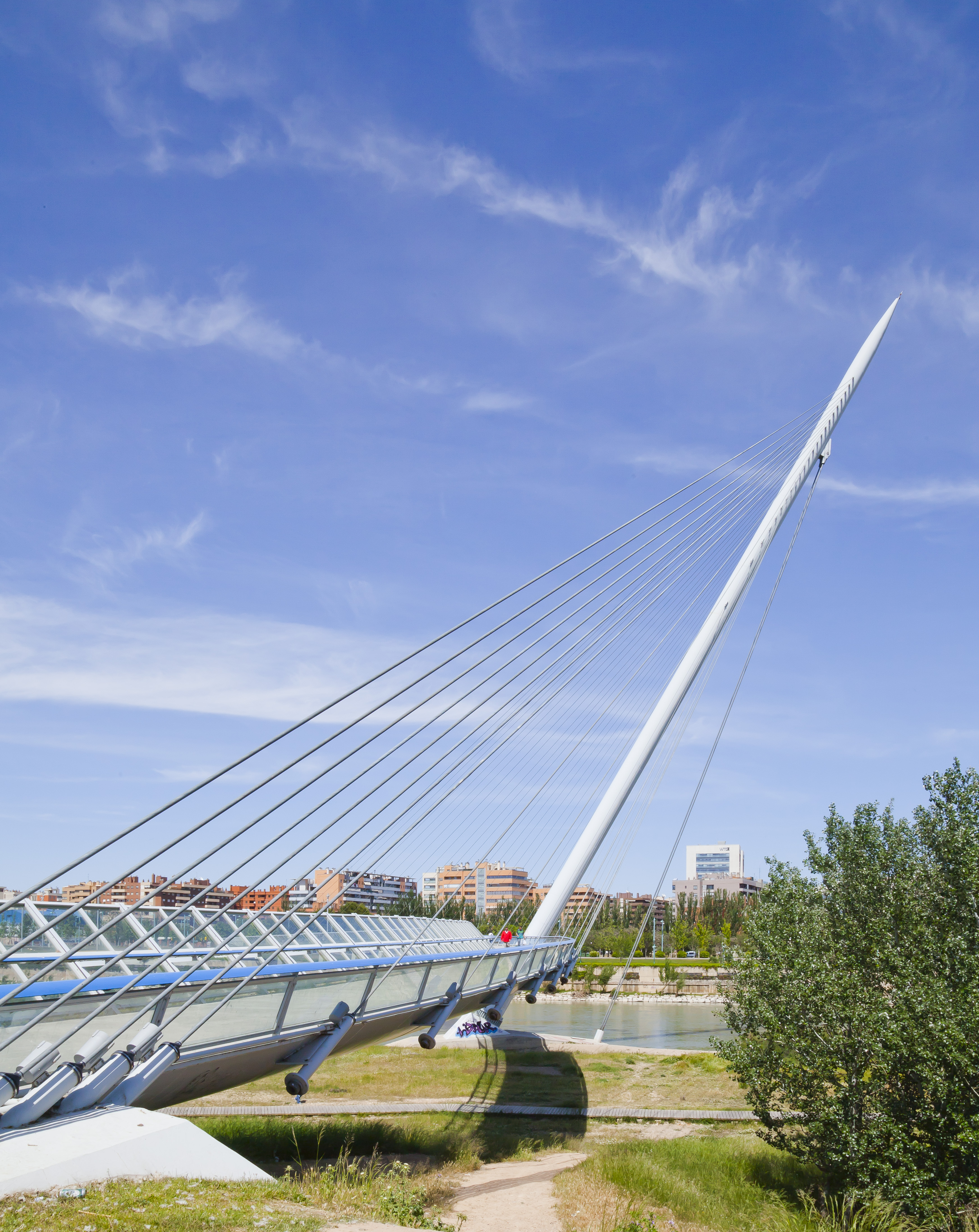 Pasarela del Voluntariado, Saragossa, Spain